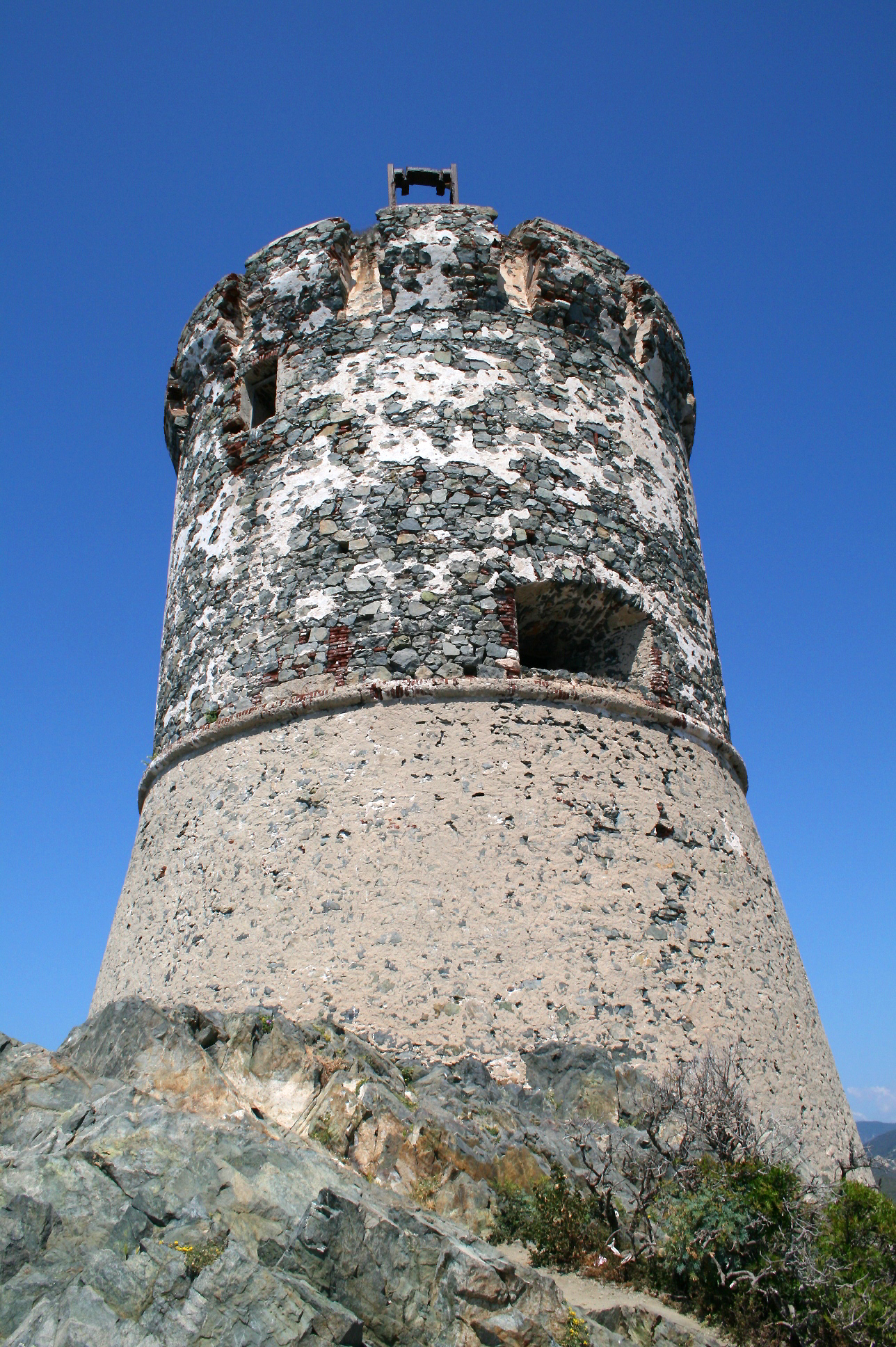 Ajaccio (Corse du Sud) - France, genovese tower of La Parata (1550). Walon: Ajaccio (Corse do Sud) - France, toûr djénoise di la Parata (1550).